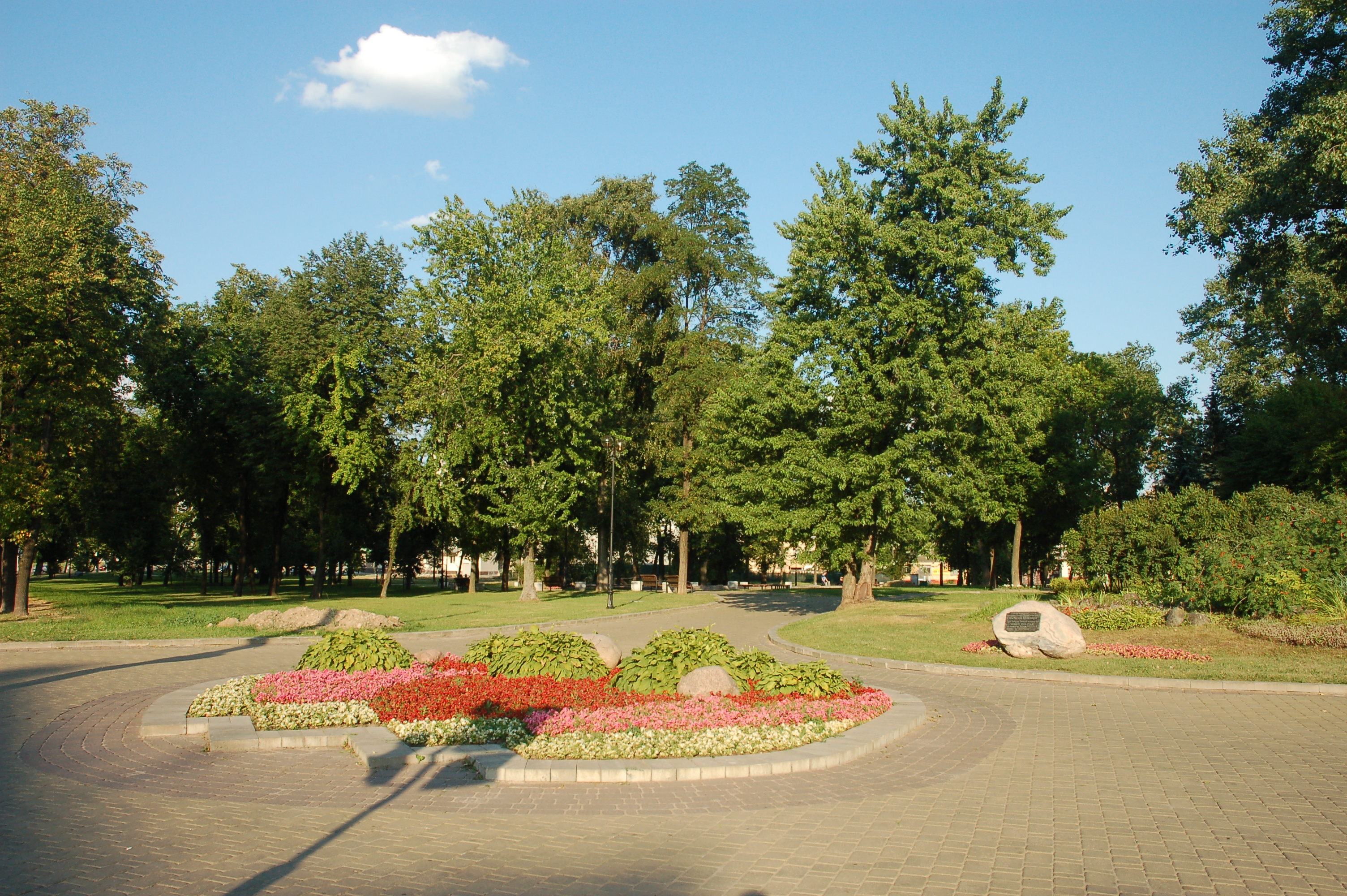 Minsk, Bolivar Park